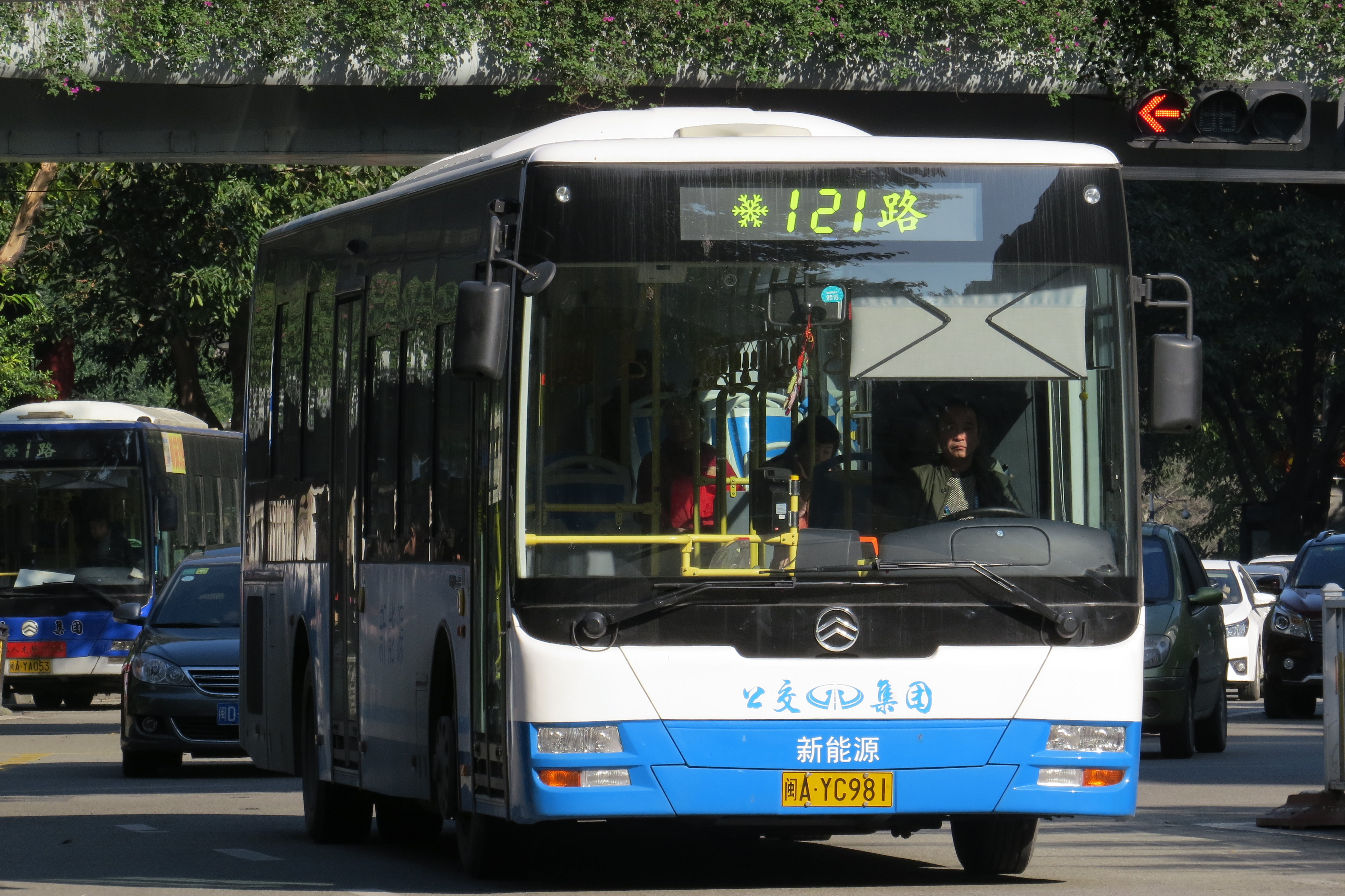 XML6125JHEVB8C1 on route 121.